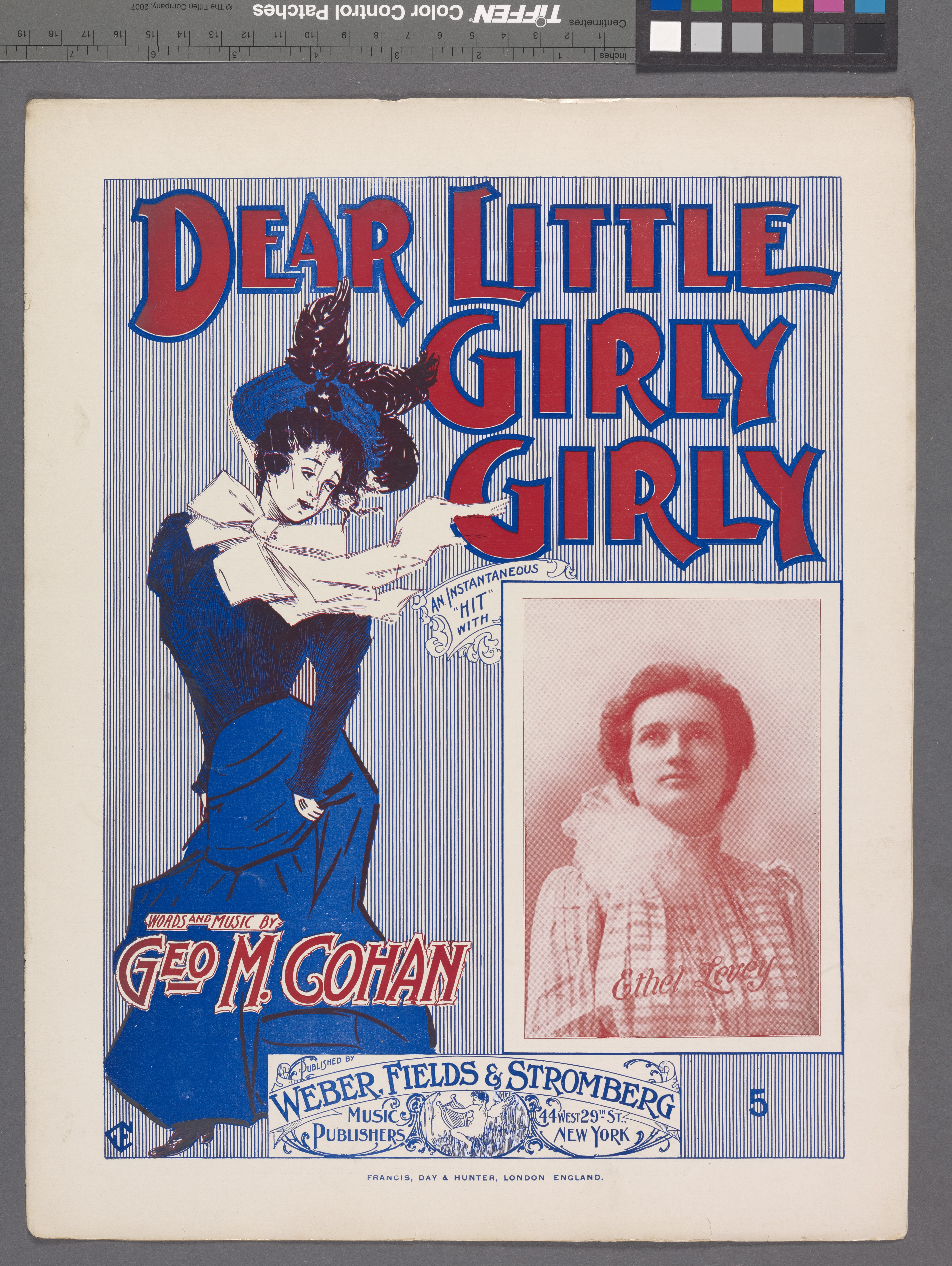 Cover illustration features woman in blue dress and hat with striped blue background with inset of photograph of Ethel Levey. On cover: an instantaneous "hit" with Ethel Levey. Statement of responsibility : words and music by Geo. M. Cohan.